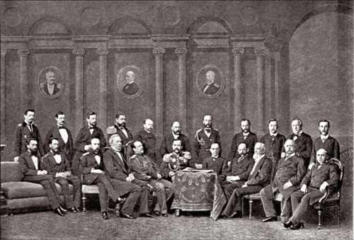 The committee for creation of Dobrovolny Flot.